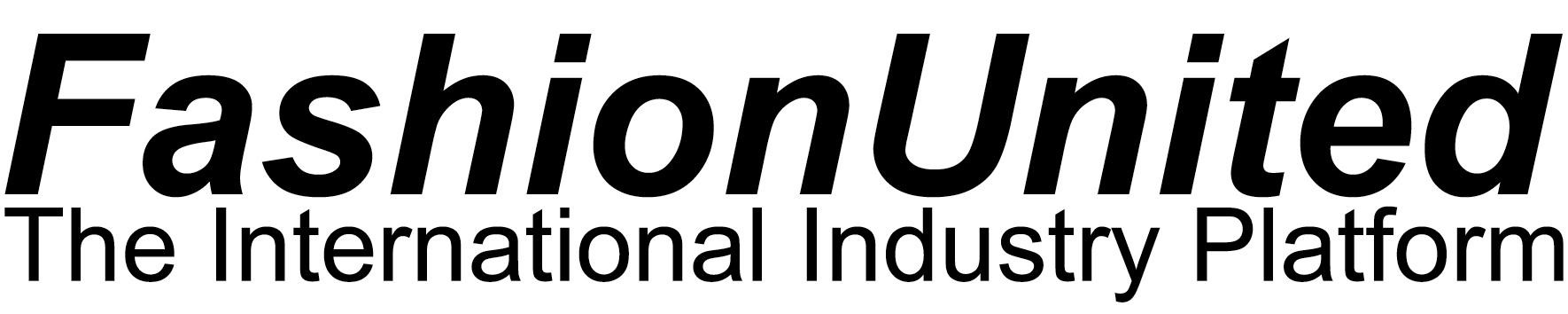 Previous logo of FashionUnited